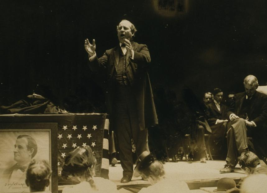 William Jennings Bryan, full-length view standing on stage, delivering campaign speech, another unidentified man seated to the rear of the stage. A portrait of Bryan from some years earlier is seen at bottom left. c. 3 July 1908